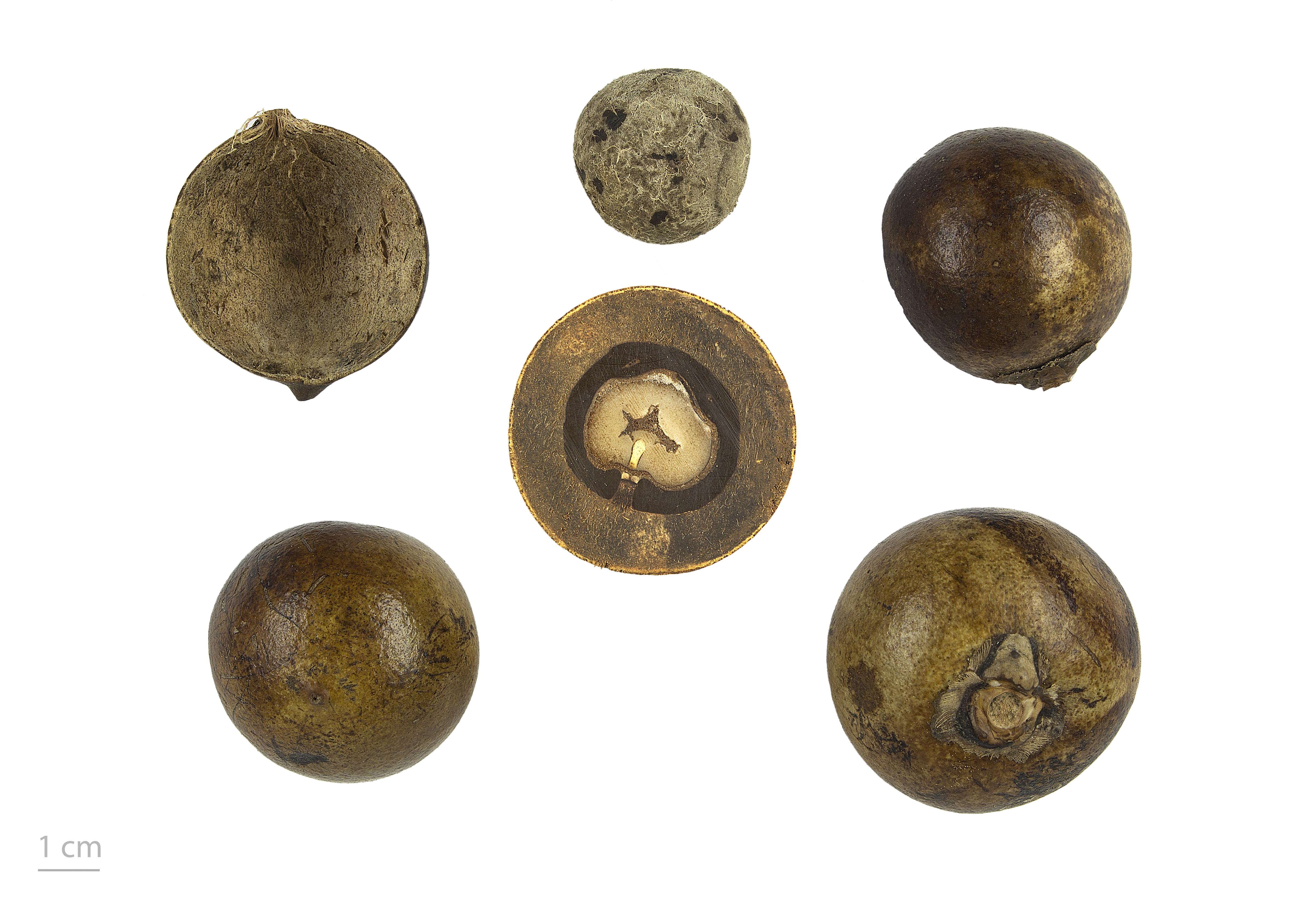 Acrocomia aculeata, , seeds